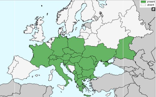 Rasprostranjenje vrste u Evropi (Fauna Europaea)